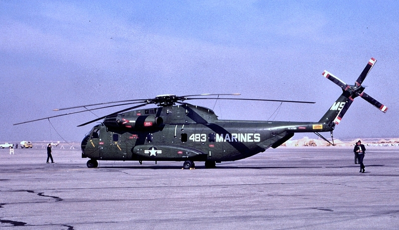 HMH-769 CH-53A sitting on flightline.